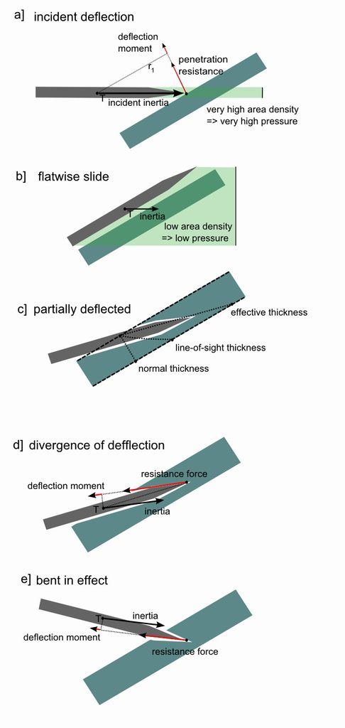 Illustrates some of possible effect which can occur when a projectile impact sloped armour. Probabilities and occasisons and importance of particular effects are subjects for further discussion.